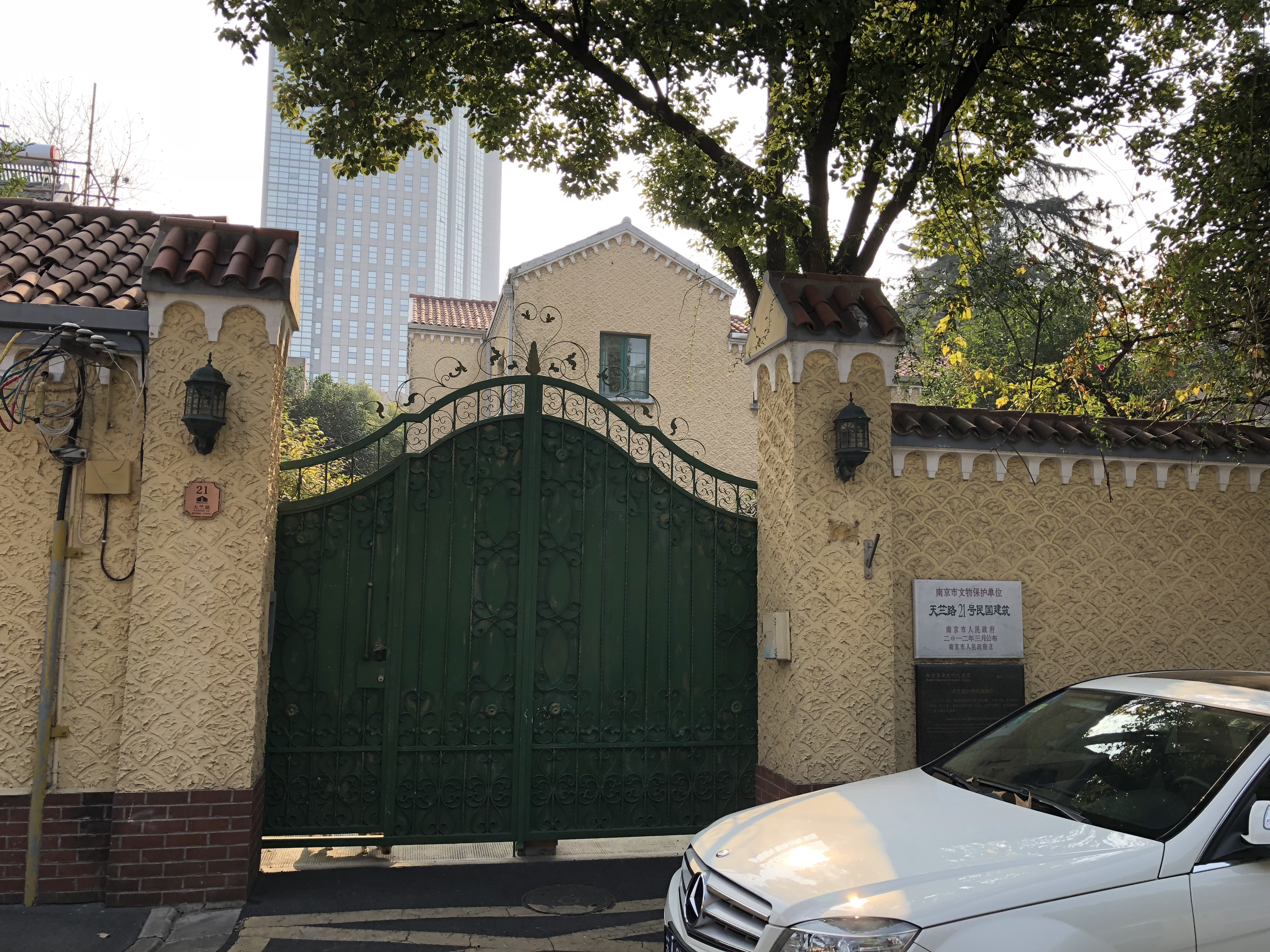 天竺路21号民国建筑 南京市文物保护单位